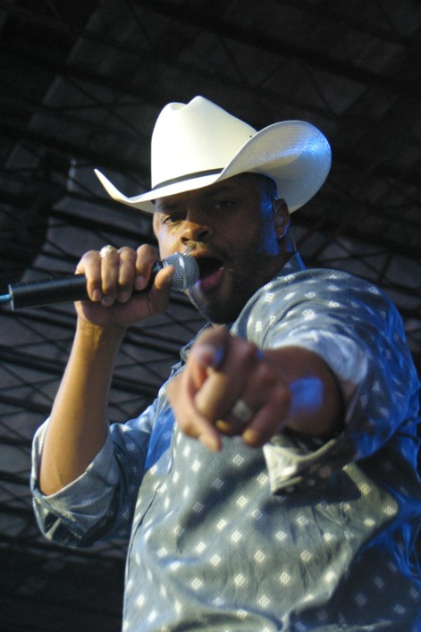 Cowboy troy singing with a microphone while looking at the camera.